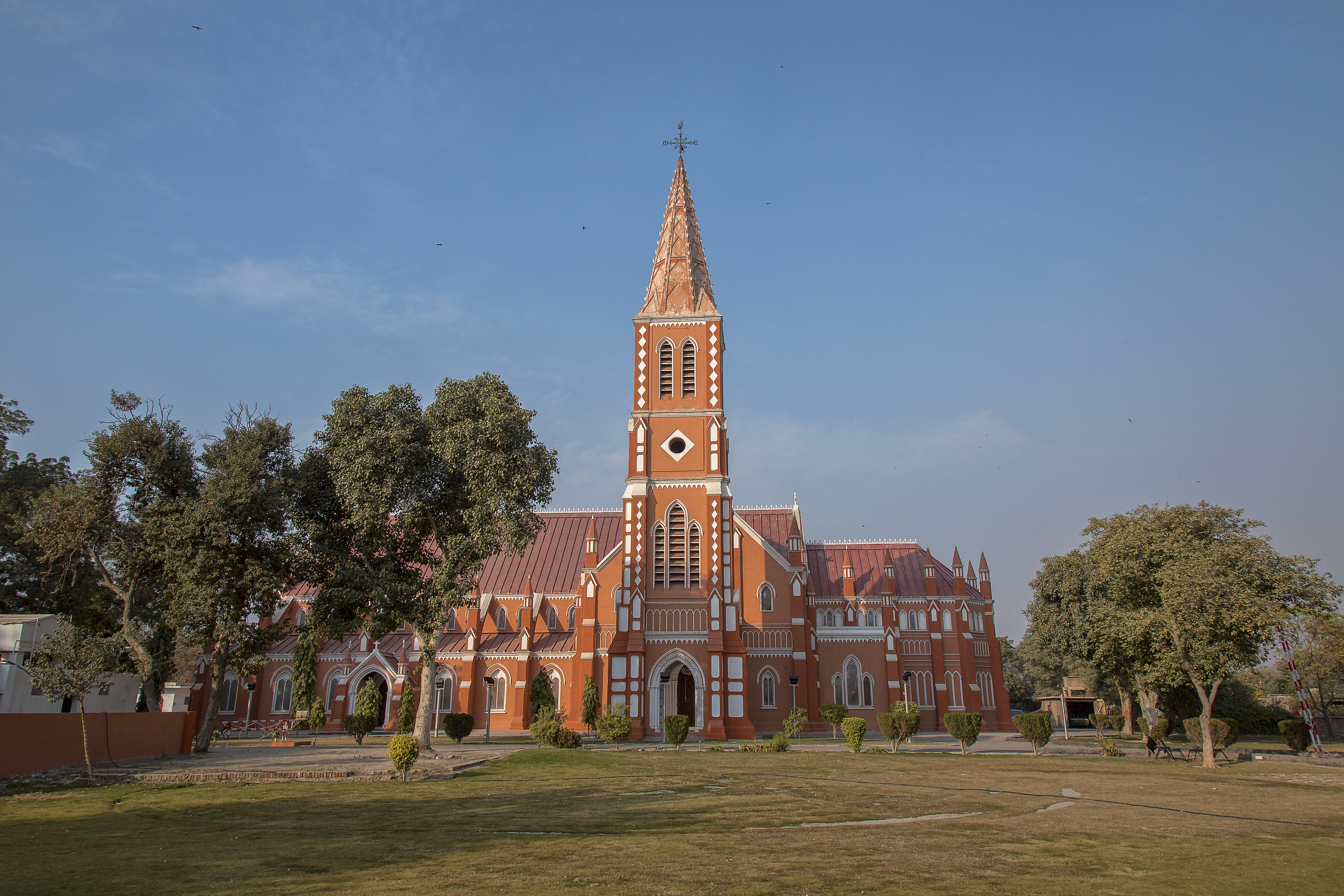 Multan’s historical monument, the 165-year-old Saint Mary’s Cathedral was renovated by the Pakistan Army in collaboration with the civil society of Multan. This is a photo of a monument in Pakistan identified as the PB-105